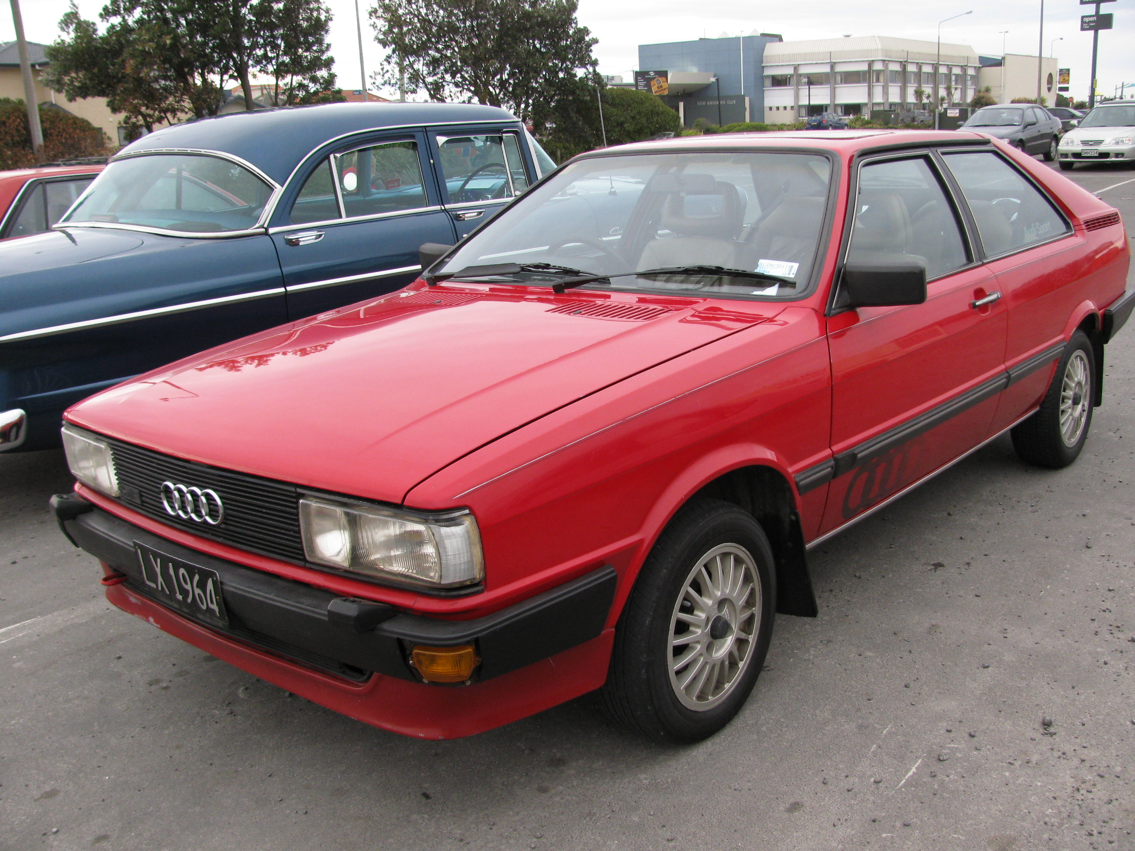 LX1964 This was literally spotless! It was nice to see an older Audi that wasn't a Quattro. This still had its original leather interior and four-ring decal down the door.